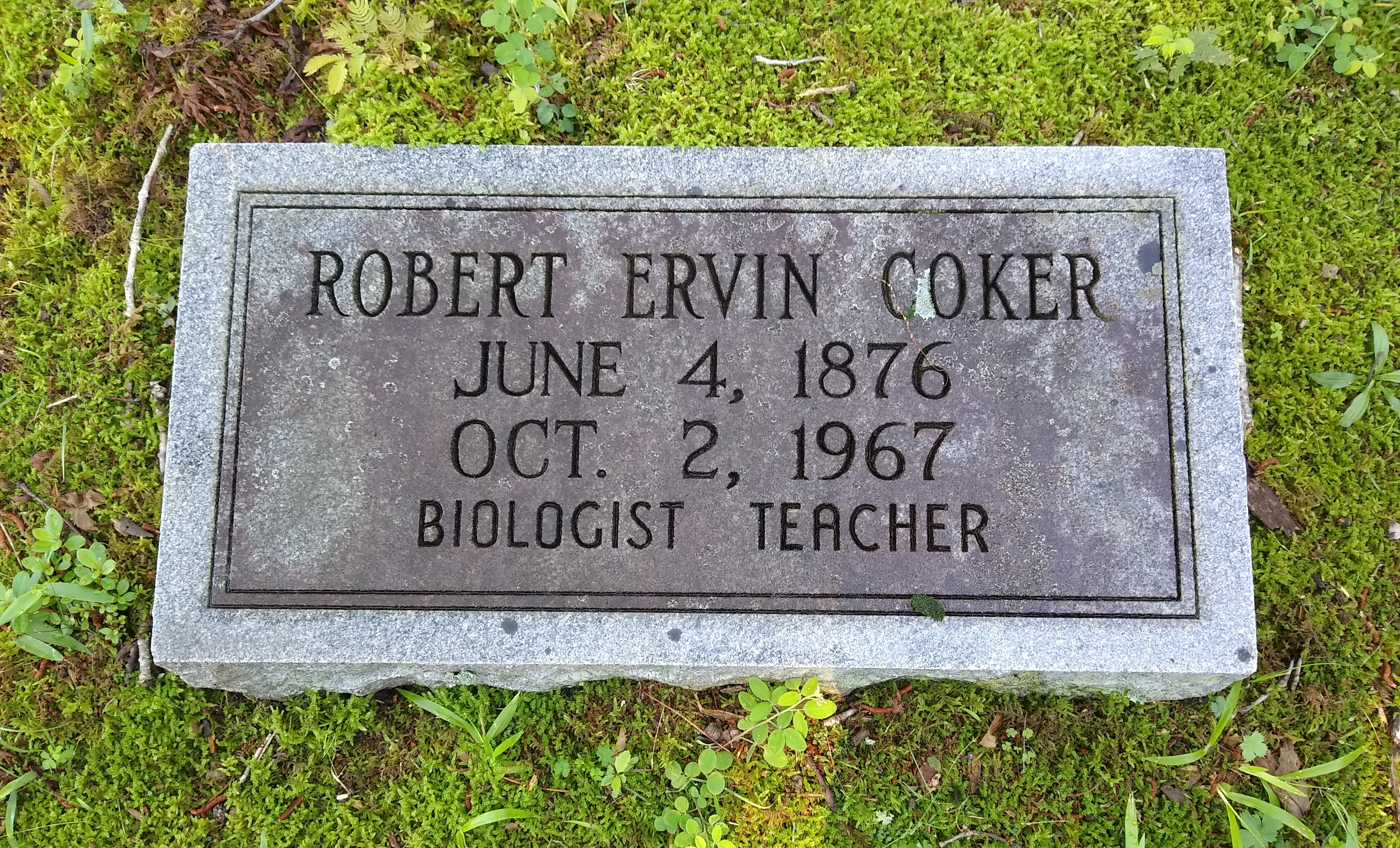 Gravestone of Robert Ervin Coker at the Old Chapel Hill Cemetery in Chapel Hill, North Carolina.